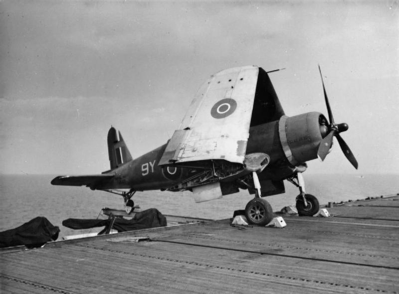 A Royal Navy Vought Corsair Mk.II on an outrigger aboard the escort carrier HMS Khedive (D62) in the Indian Ocean in 1945. Khedive did not operate the Corsair, but the Grumman Hellcat.